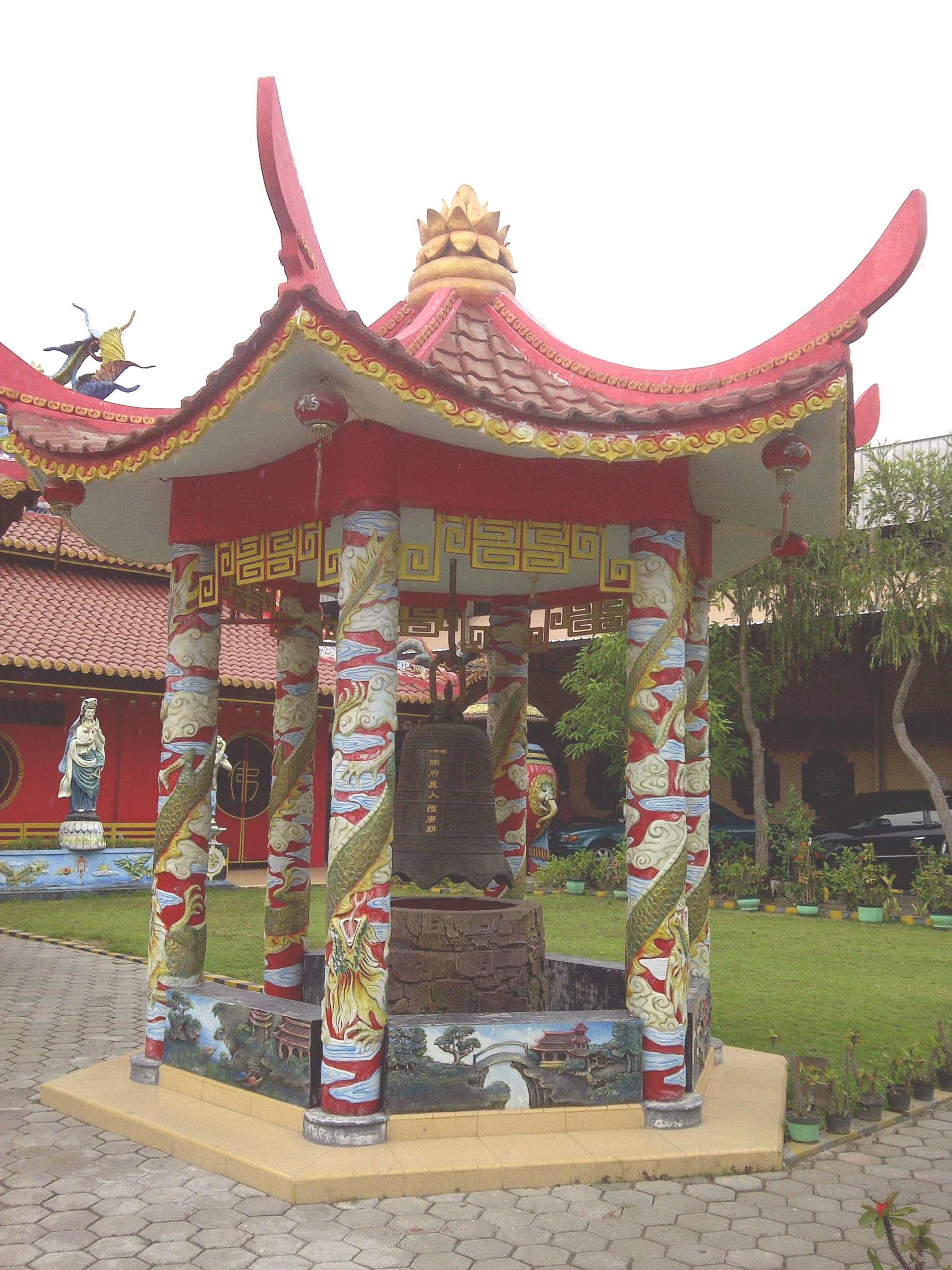 Large bell in the entrance of Hoo Tong Bio temple, Banyuwangi, Indonesia